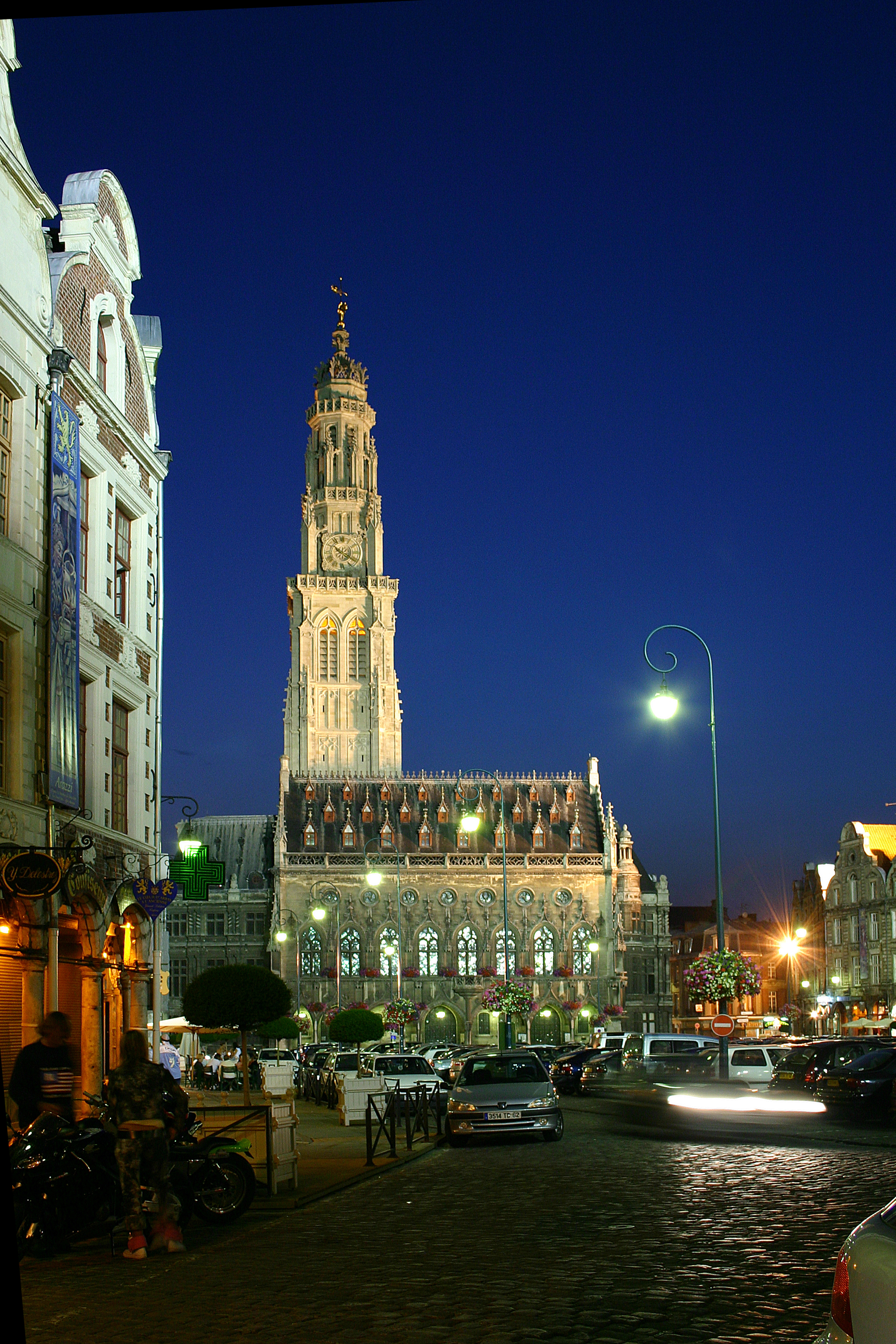 The belfry of Arras by night (France).